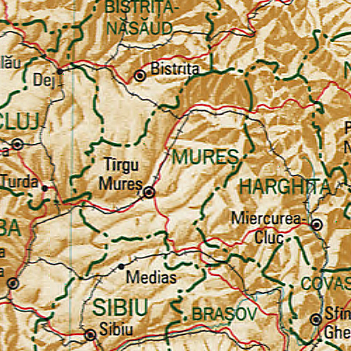 Map of Mureș County, Romania.